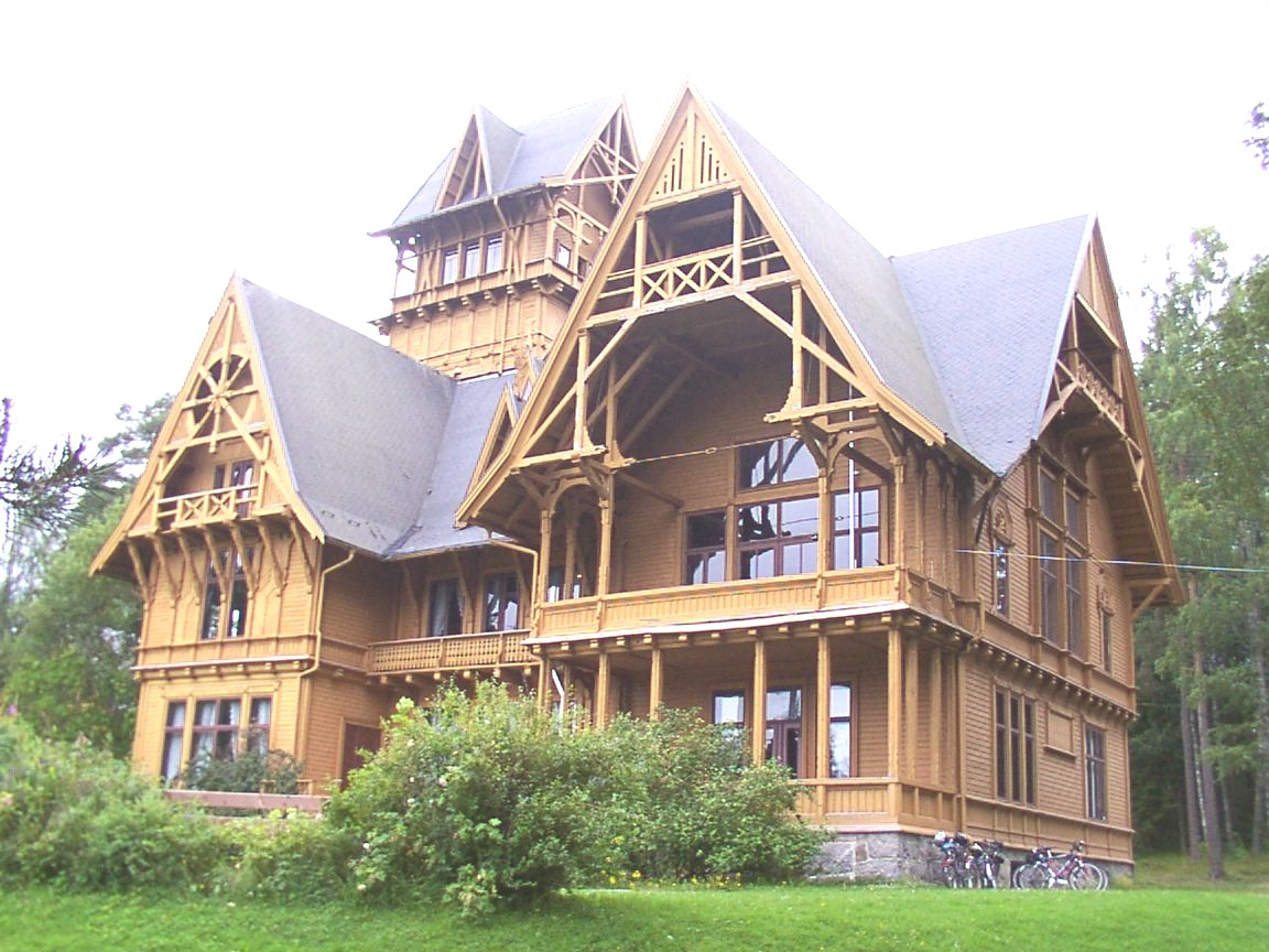 The fairytale museum of Villa Fridheim in Krødsherad, Norway.